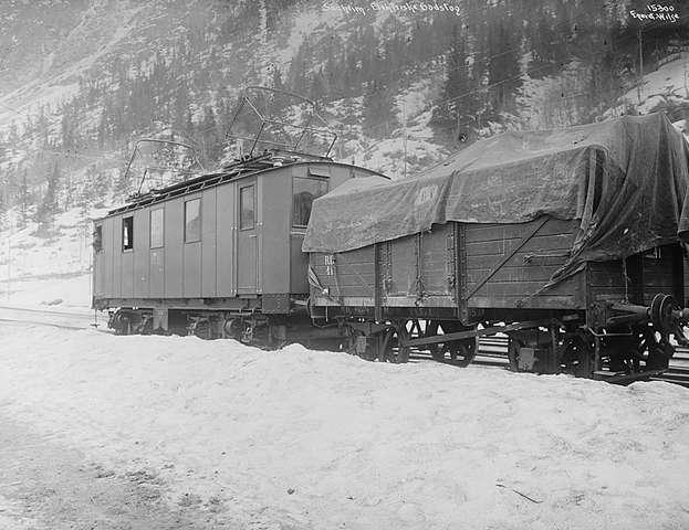 RJukanbanen electric locomotive 1 or 3, (later NSB El 7) at Rjukan hauling a freight train, Norway.